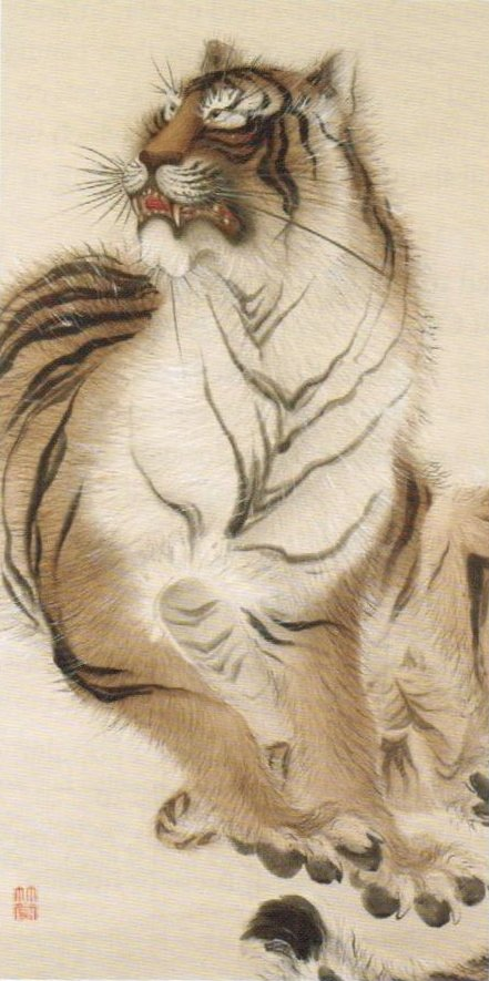 Sitting Tiger by Kishi Chikudō, early 19th century, ink and color on paper, 161.9 x 81.4 cm, Minneapolis Institute of Art